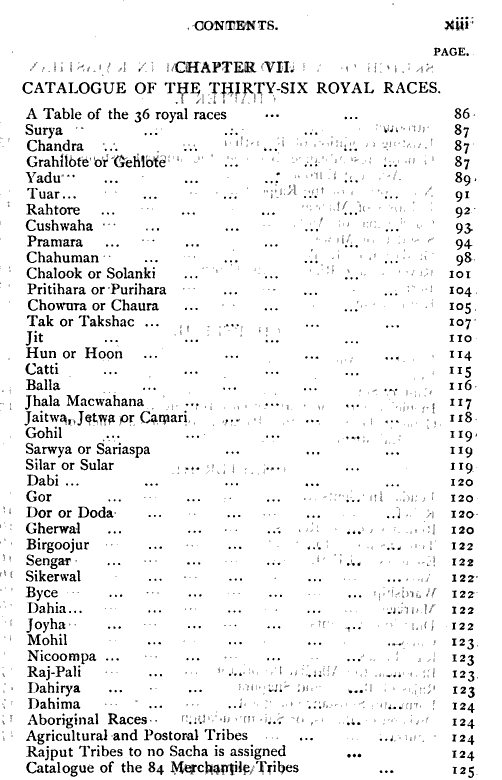 Page xiii, showing the listing of the 36 royal races of Rajasthan